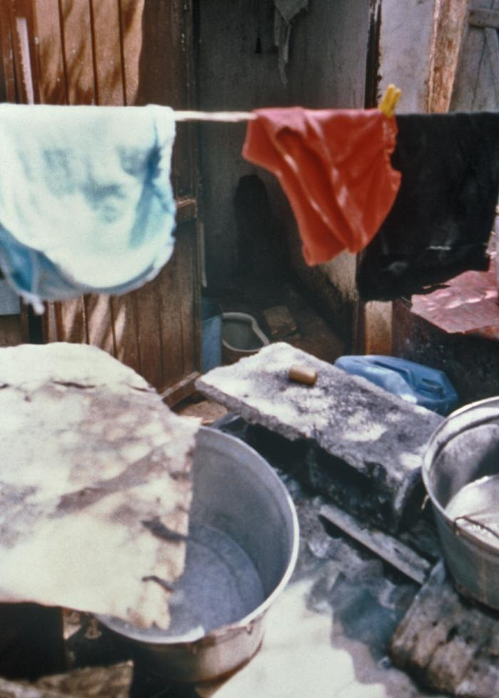 The background of this photograph shows a water closet, or bathing area, found in the residence of the index case of the 1980 Cite' Roche Bois, Mauritius typhoid outbreak. Unsanitary environmental conditions surrounding a water supply used for drinking or washing food can act to promote the spread of pathogens such as Salmonella typhi.